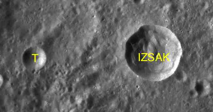 Part of the chart LAC-101 used for the presentation